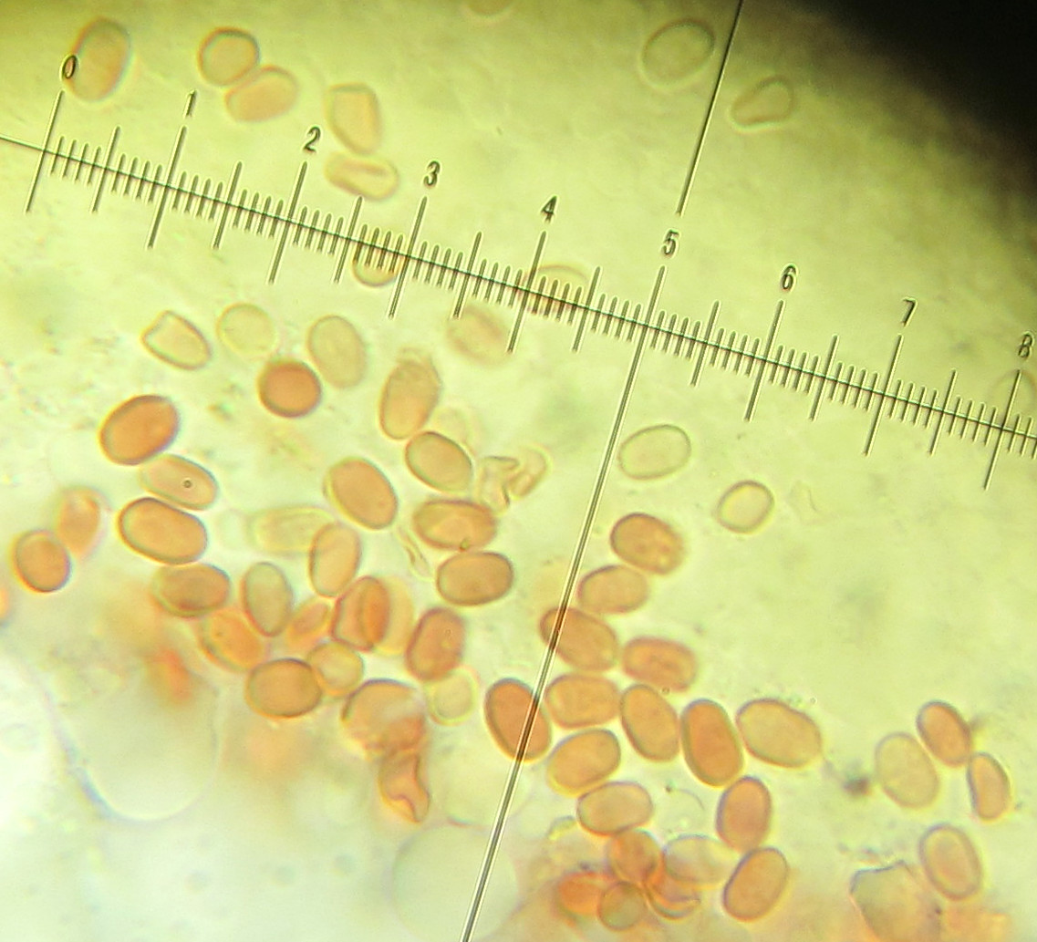 Hygrophoropsis aurantiaca (Wulfen) Maire